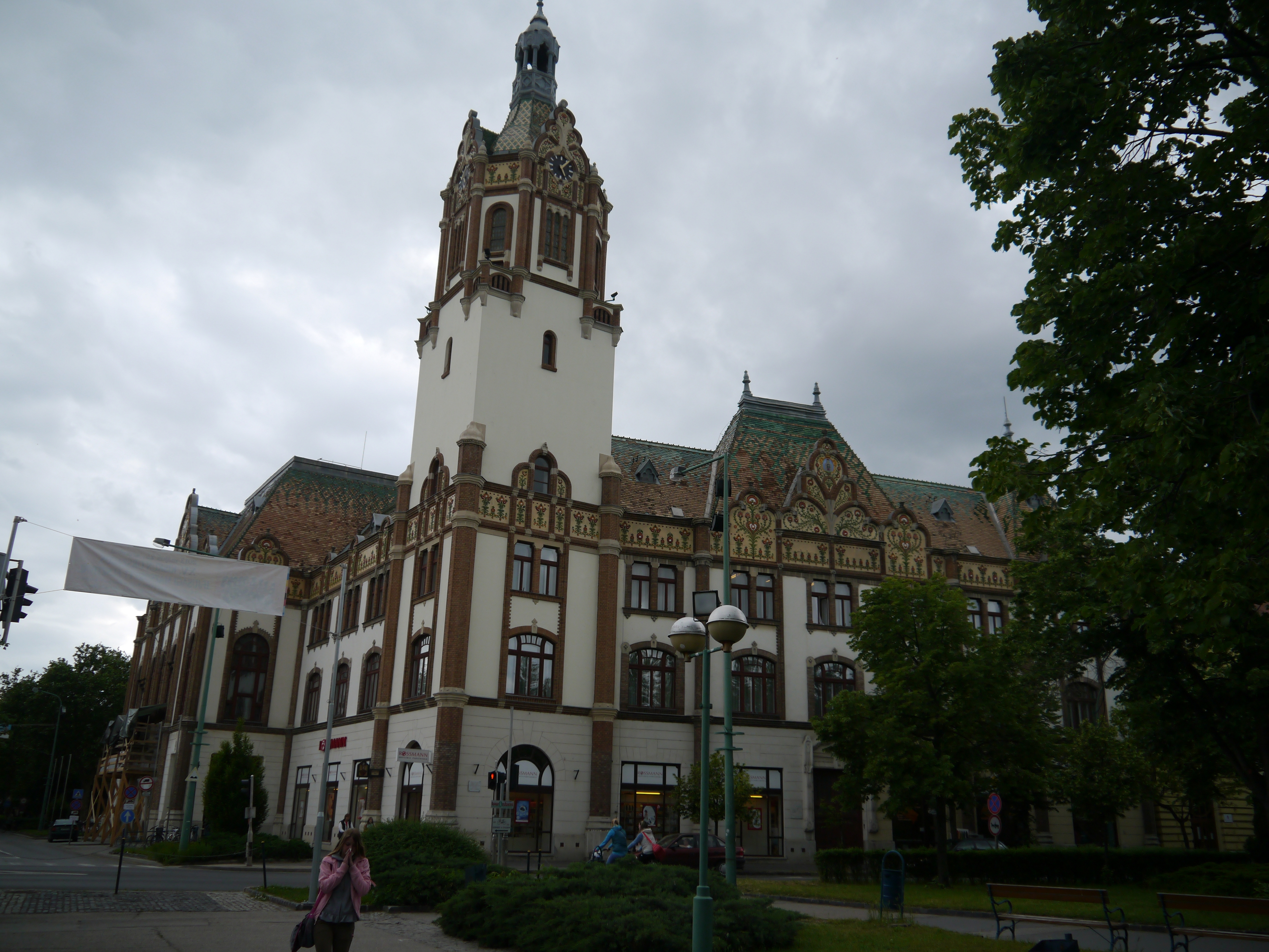 Town Hall, Kiskunfélegyháza, Southern Hungary